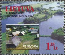 Europa.Parks and Gardens. Date of issue: 10th April 1999 Designer: K.Katkus Paper: coated Printing process: offset Perforation: comb 13 : 13 1/4 Size of a stamp: 35,50 x 30 mm Size of a Miniature Sheet: 92 x 172 mm Miniature Sheet composition: 10 (2 x 5) stamps Printing run: 500.000 stamps or 50.000 Miniature Sheets Michel catalogue numbers: 693-694 1,35 L. multicoloured. Aukshtaitija national park